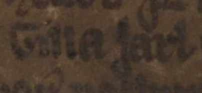 An excerpt from folio 4r of AM 162 B epsilon fol (Njáls saga): "Gilla jarl". The excerpt concerns Gilli, Earl of the Suðreyjar.